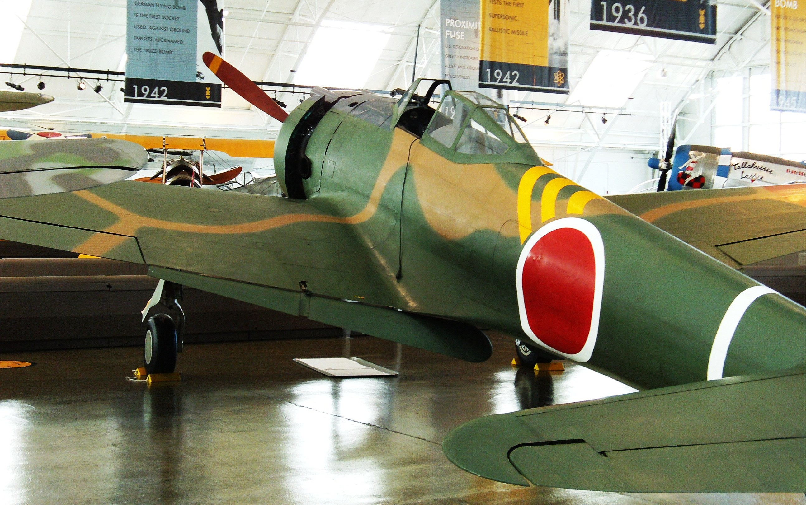 Nakajima Ki-43 Hayabusa - Paine Field USA (2010) - Rear view left side.